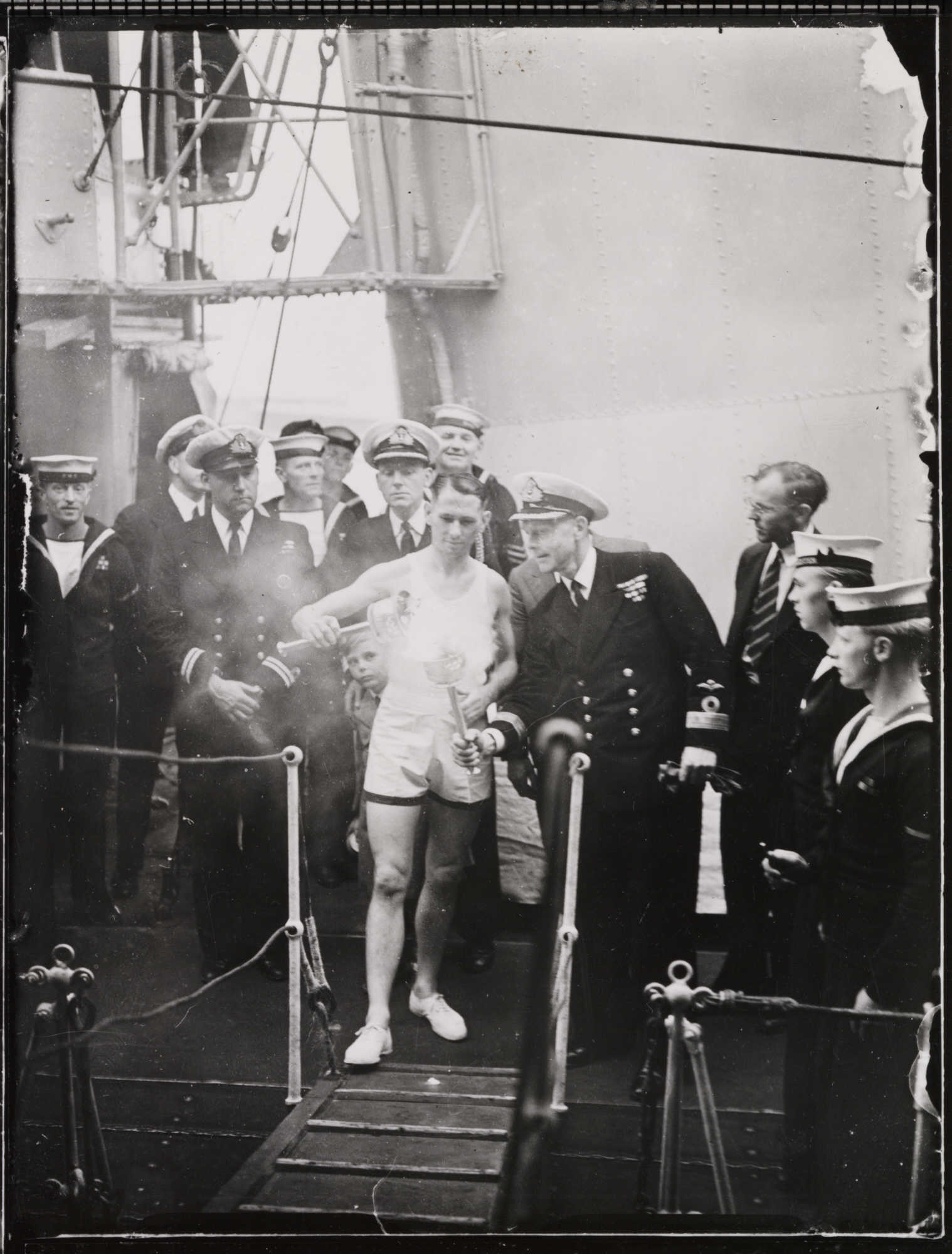 The Olympic torch brought by the destroyer Bicester at Prince of Wales Dock on its way to Wembley. Picture shows Chief Petty Officer Herbert Barnes lighting the torch aboard the destroyer.